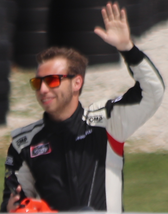 NASCAR driver Preston Pardus waves to fans at his series debut at Road America.